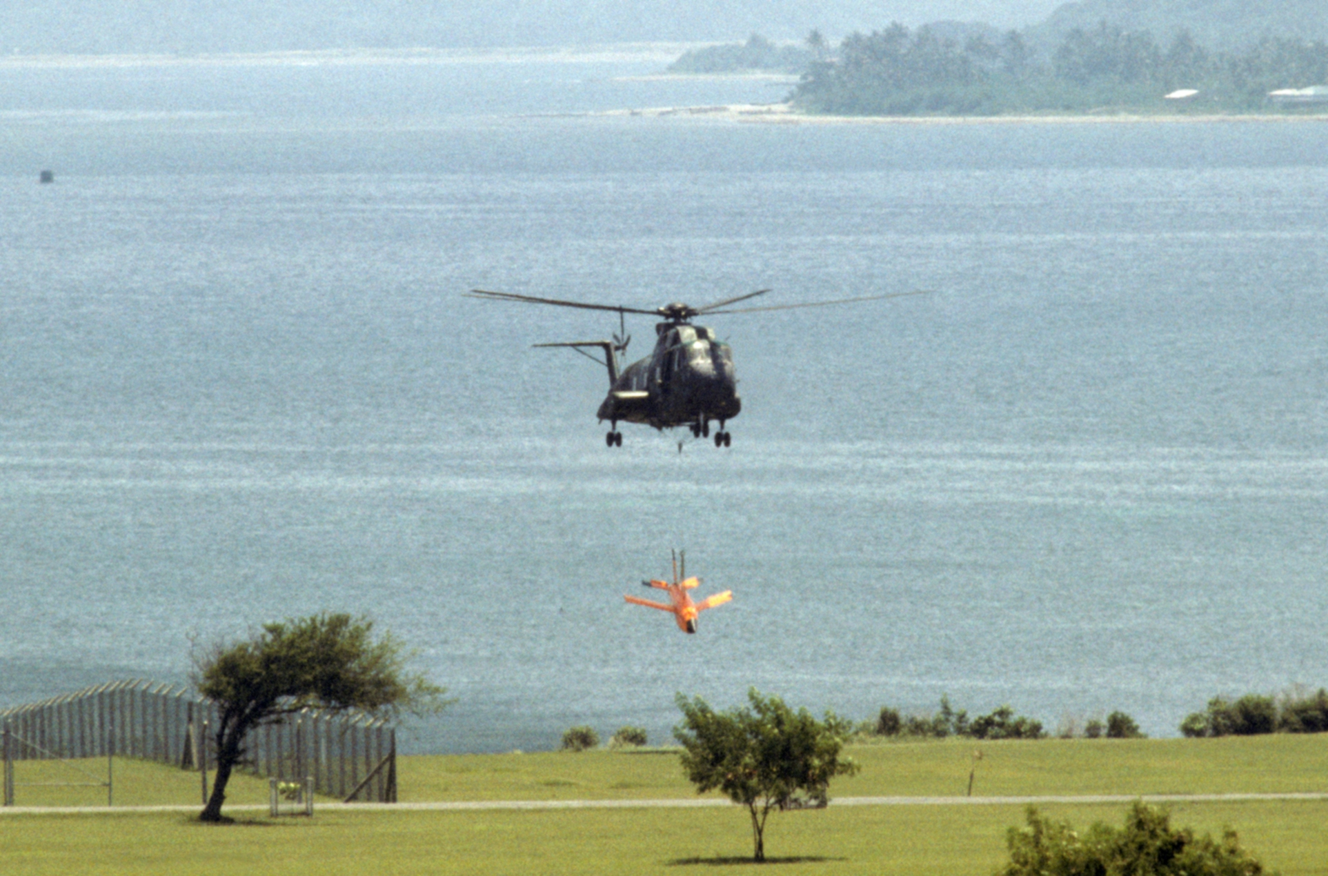 A U.S. Air Force Sikorsky HH-3E Jolly Green Giant helicopter from the 31st Aerospace Rescue and Recovery Squadron returns a Ryan BQM-34A Firebee drone to the station after recovering it from the ocean on 24 August 1984. The 31st ARRS was stationed at Clark Air Base, Philippines, from 1981 to 1993.